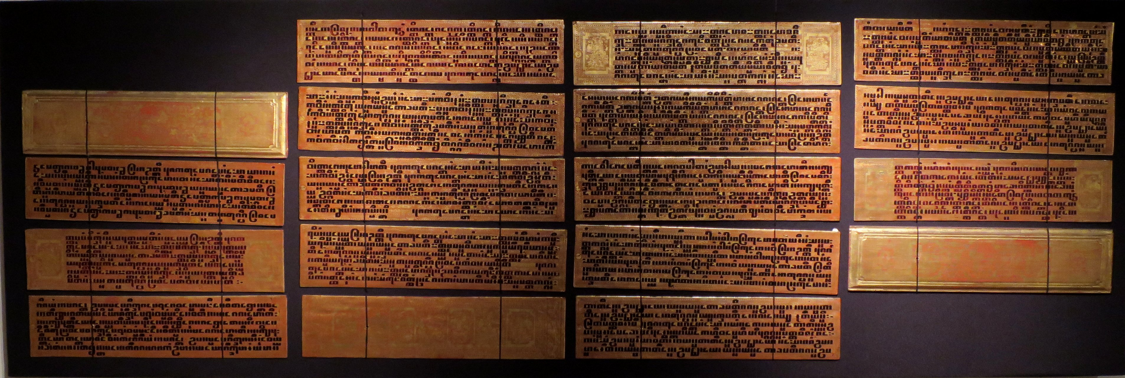 Kamawa-sa (Buddhist manuscript) from Bagan Myanmar, lacquer, gold-leaf, etching, palm leaf infrastructure, carved teak covers, linen binding tape, mid-19th century, East-West Center